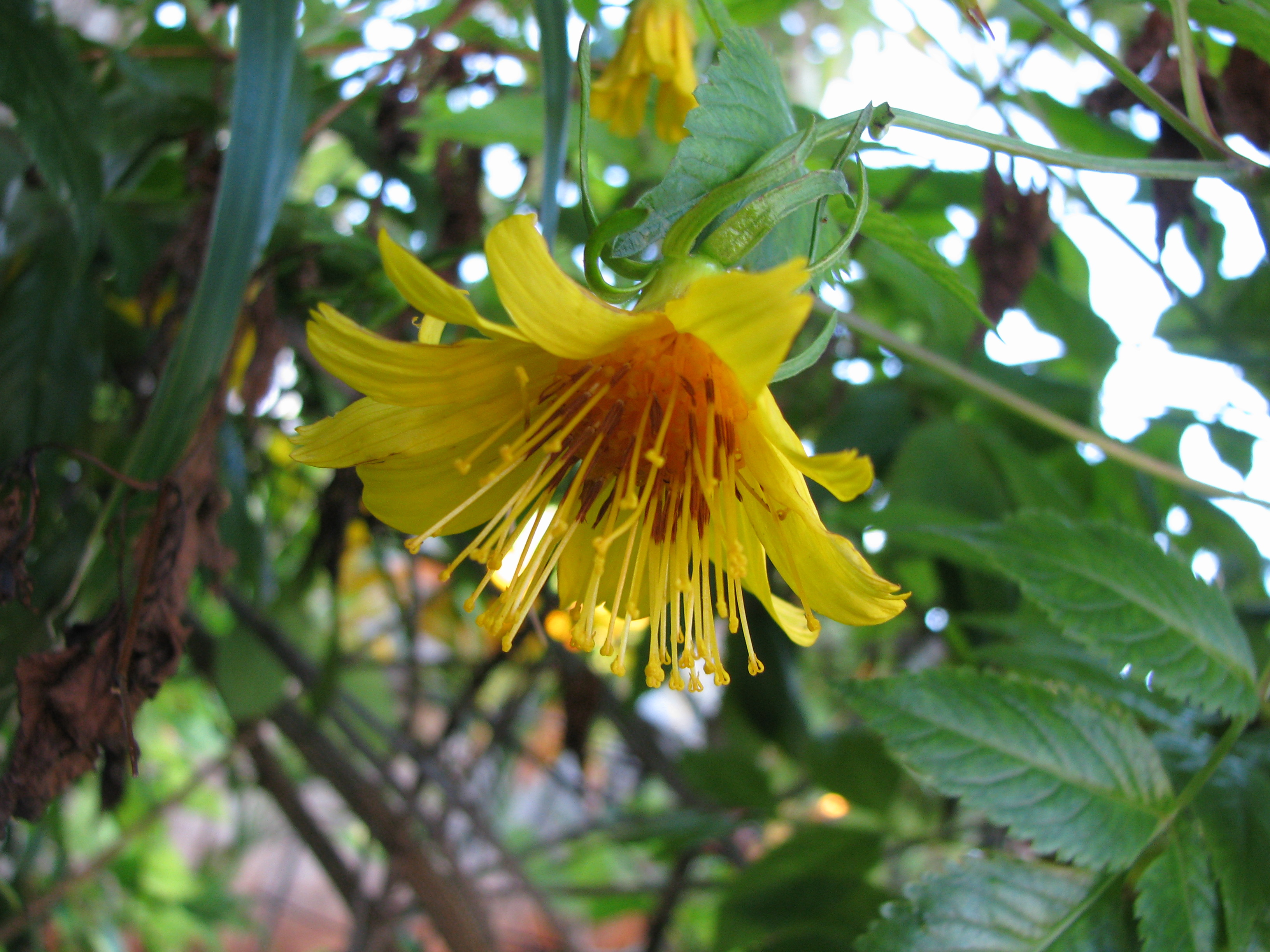 Koʻokoʻolau or Cosmosflower beggarticks Asteraceae Endemic to the Hawaiian Islands (Kauaʻi only) Oʻahu (Cultivated)